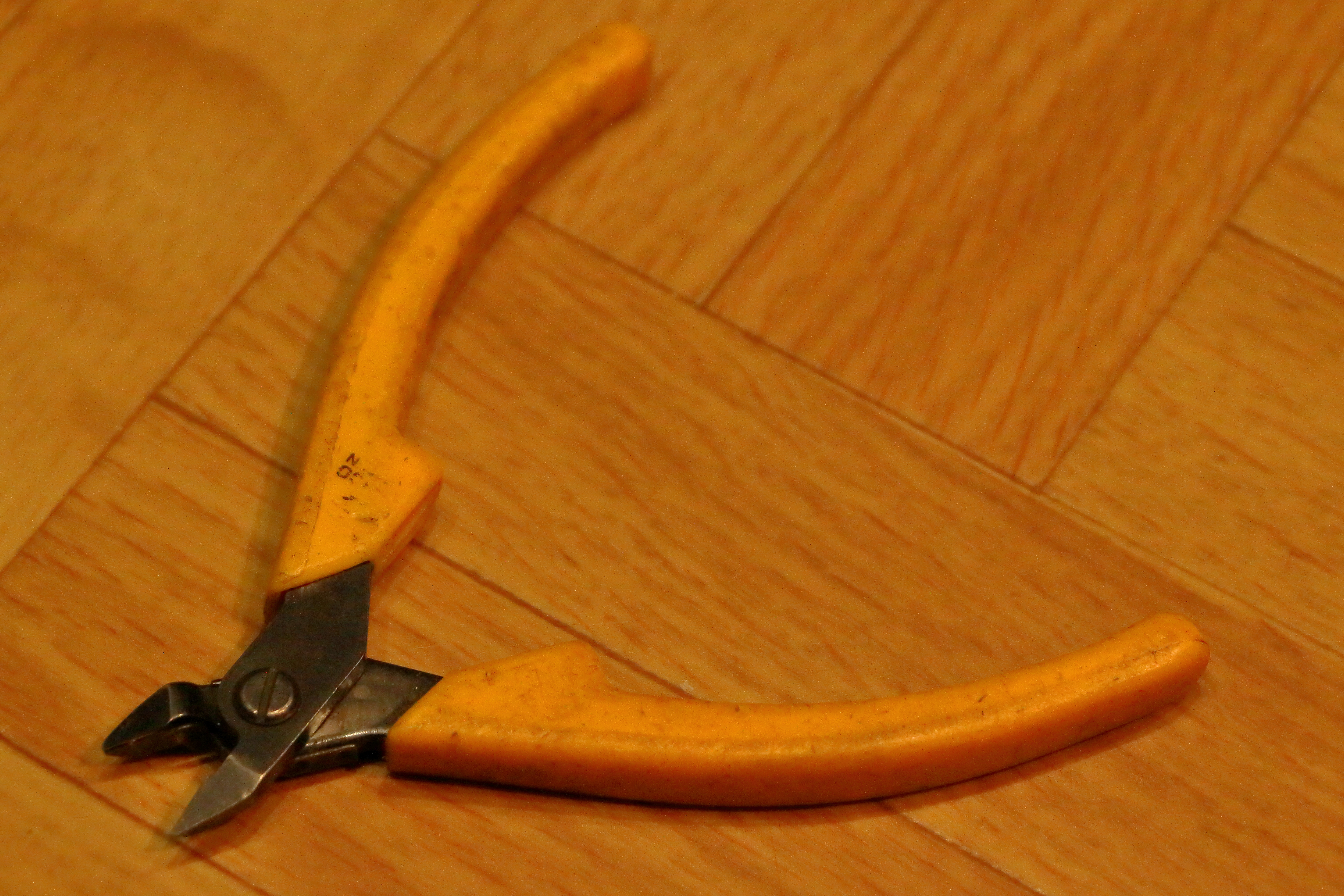 Wire cutters with flush cutting jaws and offcut retaining finger. Plastic handles. Used for very light wire, ideal for coaxial cable braid as the offcut retaining finger in the jaws helps to prevent the offcut from scattering.